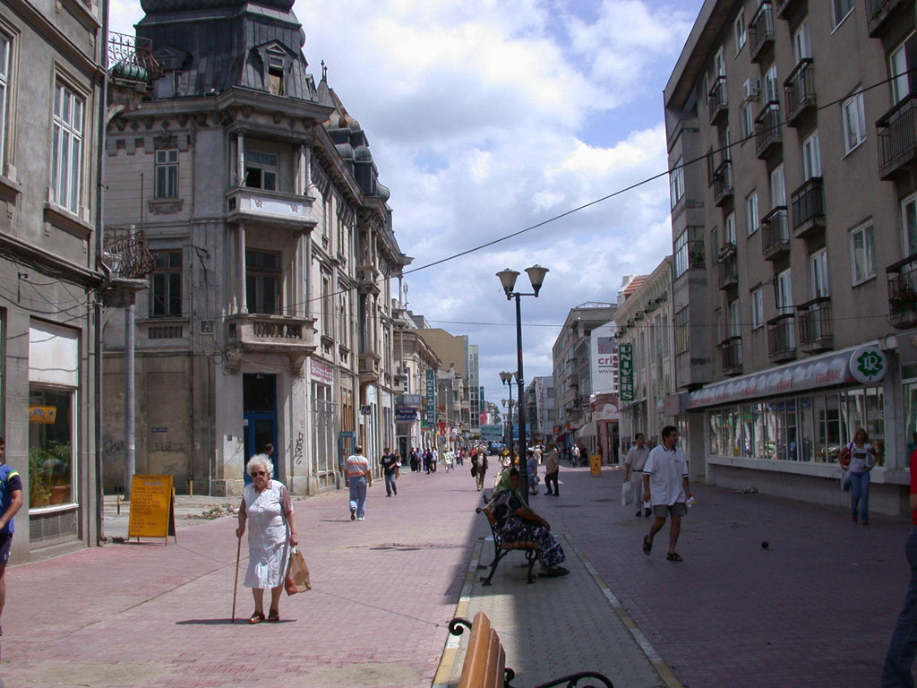 Street in Constanta, East Romania